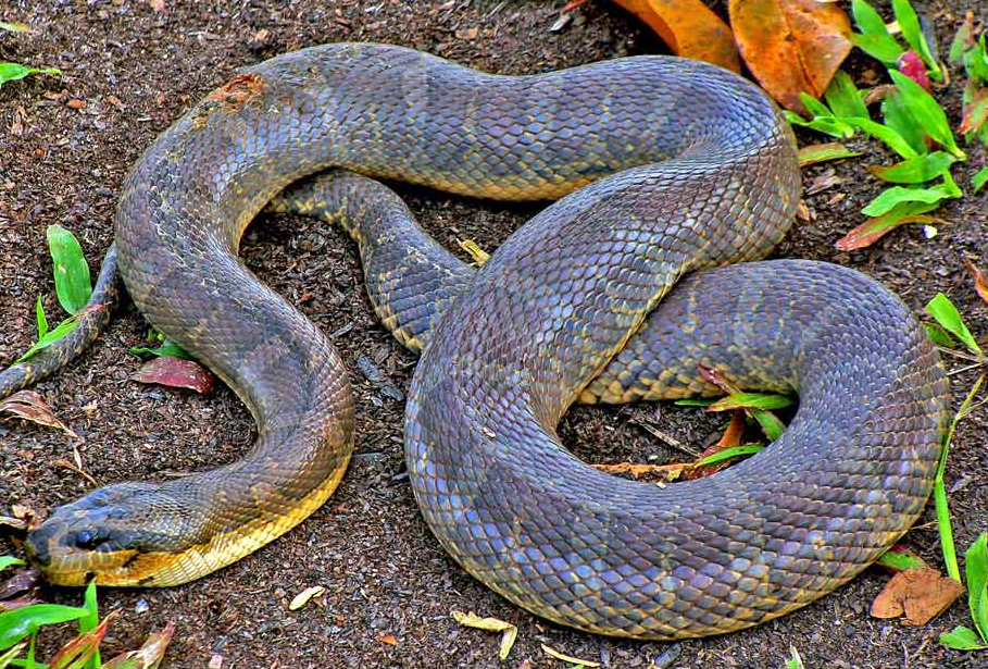 Homalopsis buccata from East Kalimantan